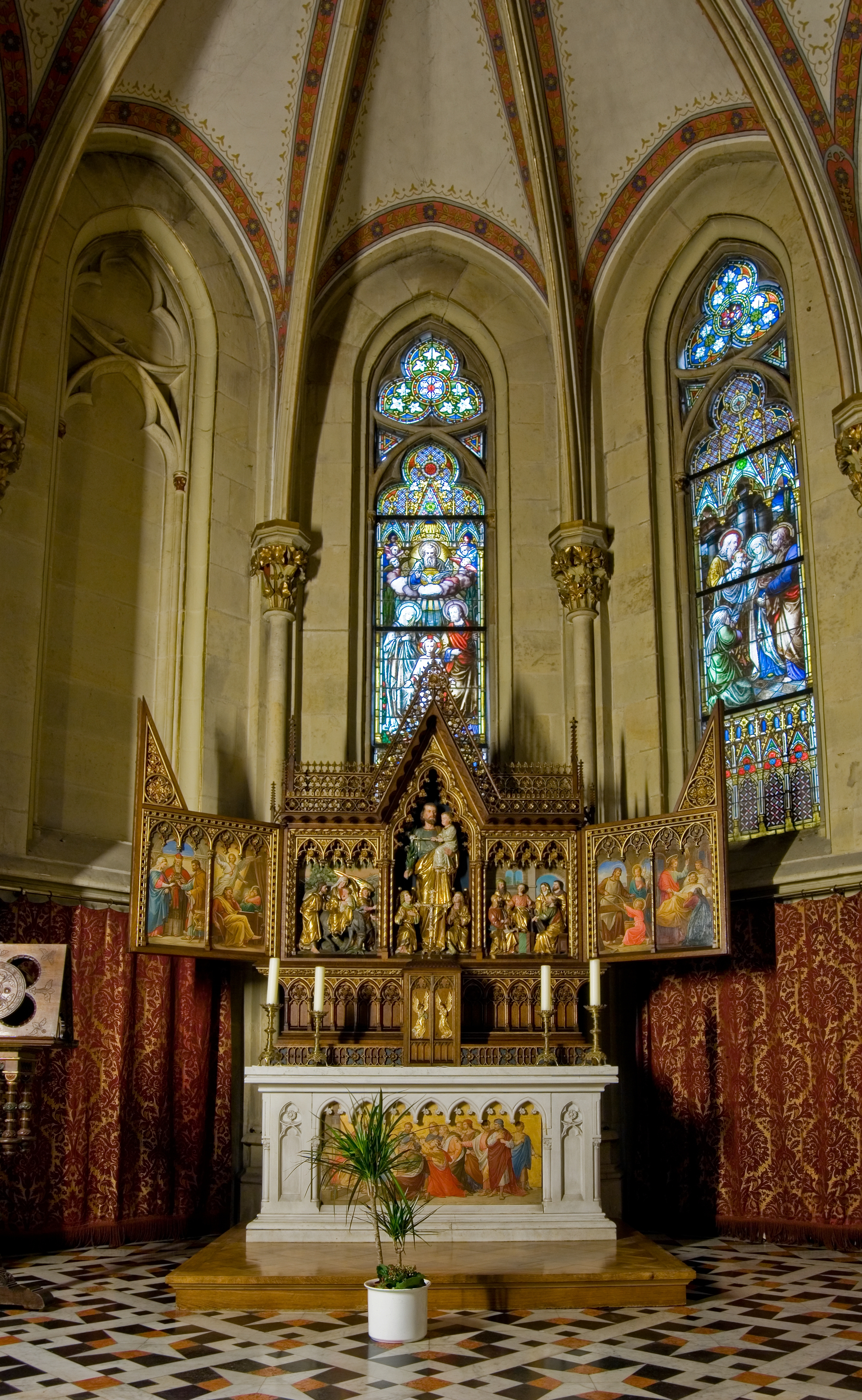 Billerbeck (North Rhine-Westphalia, Germany) – Catholic Saint Liudger Church (also known as Billerbeck Cathedral) – southern aisle This image shows a heritage building in Germany, located in the North Rhine-Westphalian city Billerbeck (no. 11). This photograph was taken with a Nikon D3000